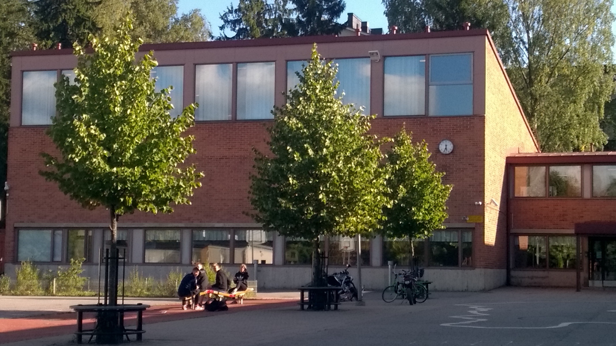 Puistolanraitti primary school, Helsinki, Finland. - Gym